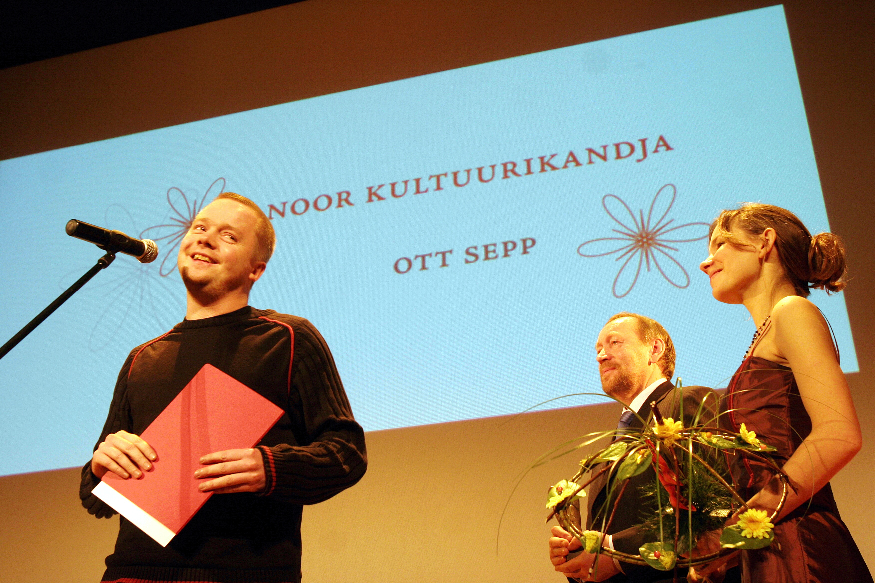 Estonian actor Ott Sepp.